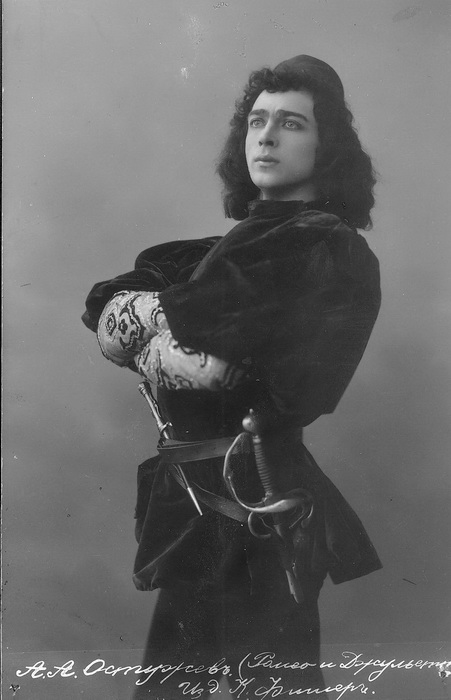 Alexander Ostuzhev as Romeo, his first big role, 1900